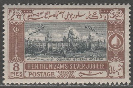 Hyderabad State stamp featuring the Osmania General Hospital. The value, 8 pies, is written in English, Urdu, Hindi, and Telugu. It also features a ceremonial dastaar, or turban worn by the Nizam on the wight and a spire with the letter "Ayin" (stands for Osman) on the left.